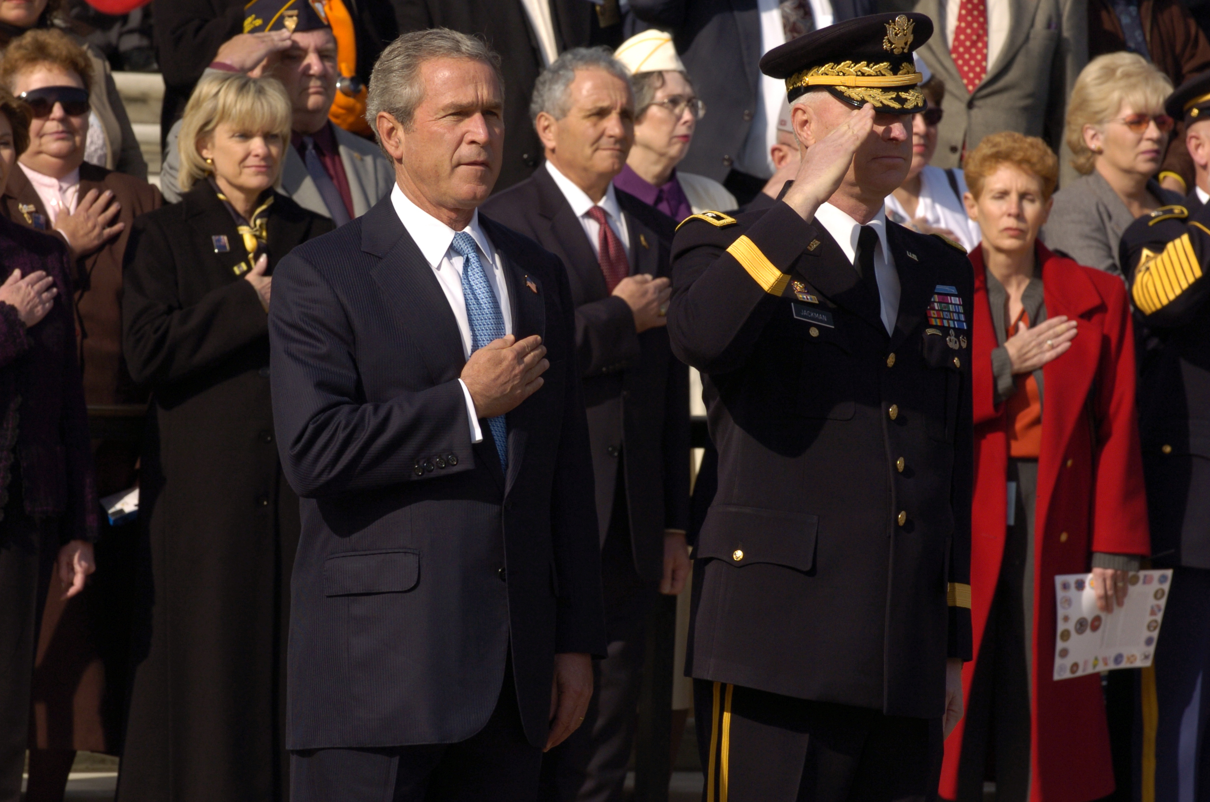 Arlington National Cemetery, Va. (Nov. 11, 2004) – President George W. Bush and Commanding General, Maj. Gen. Galen B. Jackman pay respects to the unknown servicemen laid to rest at the Tomb of the Unknowns in Arlington National Cemetery, Va., during a Veteran’s Day ceremony. U.S. Coast Guard photo by Petty Officer 1st Class John Gaffney (RELEASED)